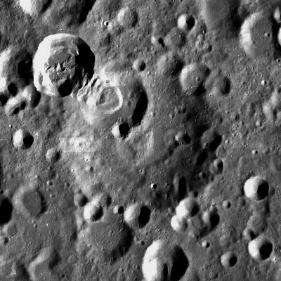 LROC . Klute is the heavily eroded center crater. Note the wall slump produced by Klute W satellite at upper left.